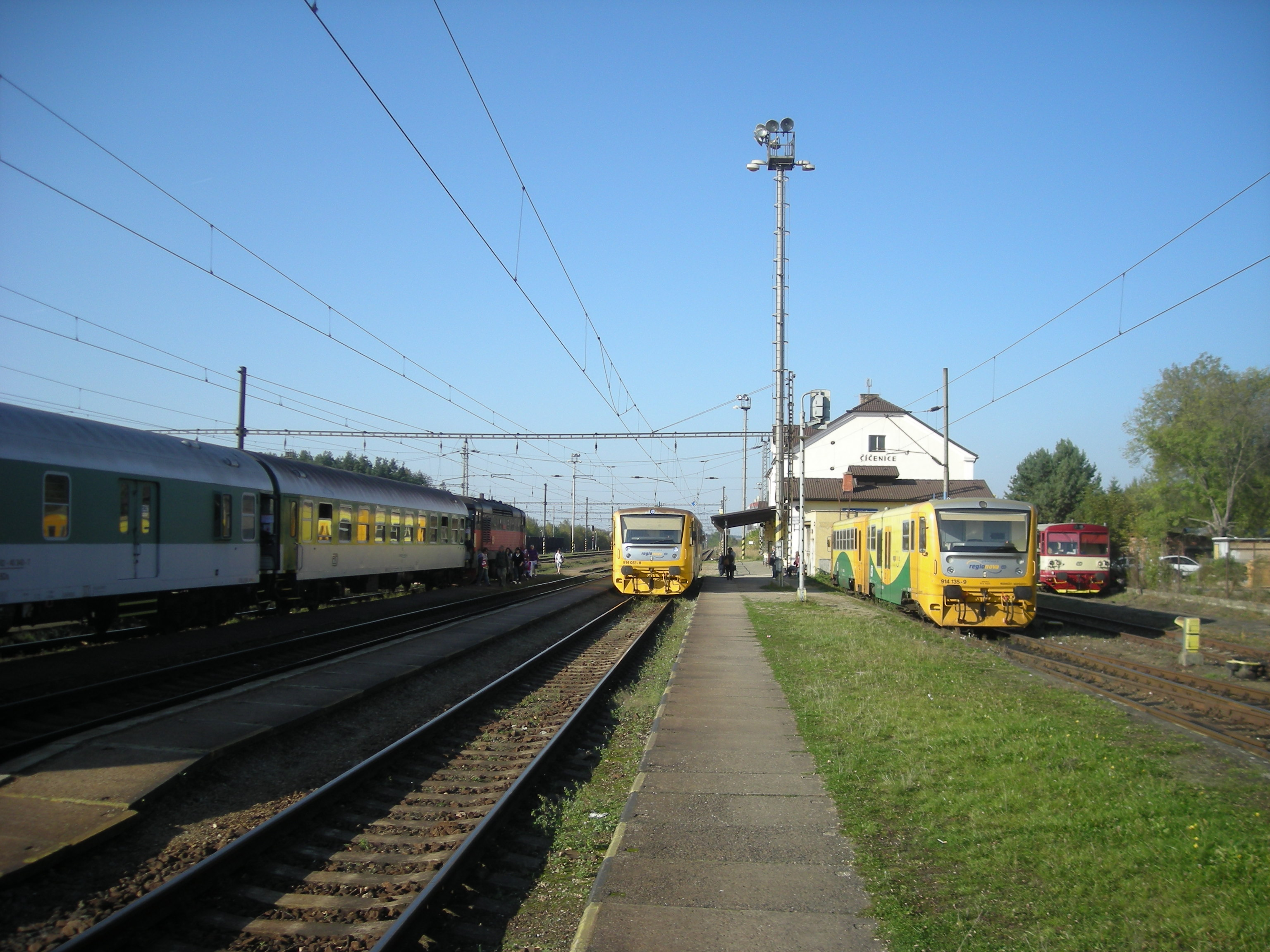 Train station in Číčenice, Czech Republic, with two Regionova and one class 810 diesel railcars.